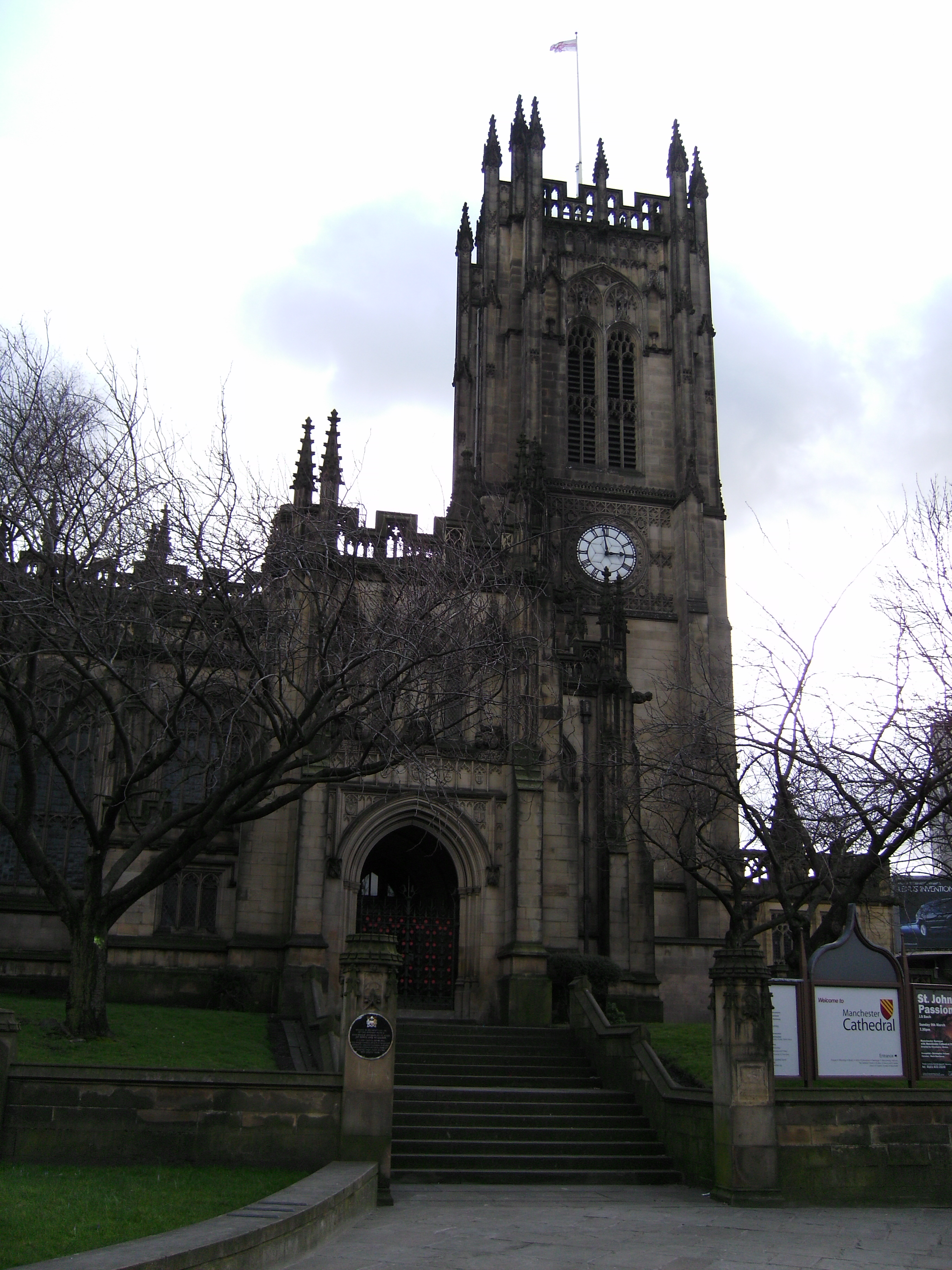 Image of the front entrance to Manchester Cathedral, England